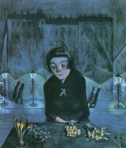 Tired Flower Girl (Sonia). Oil on gold leaf on canvas, 30.5 × 26.25 in (77.5 × 66.7 cm). Signed and dated lower right: „W.G. / 22.“